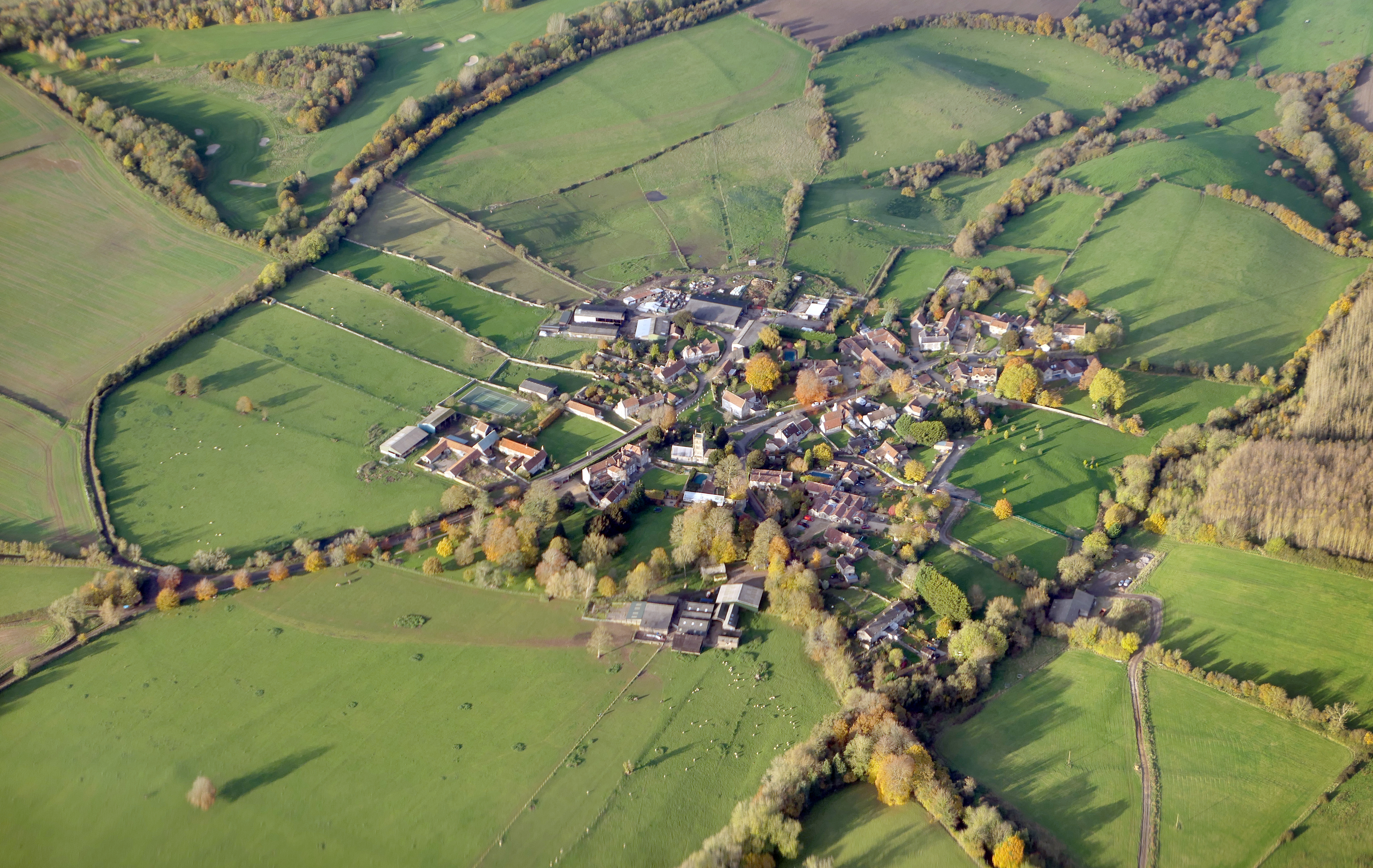 An aerial view of the village of Queen Charlton, near Bristol, England.